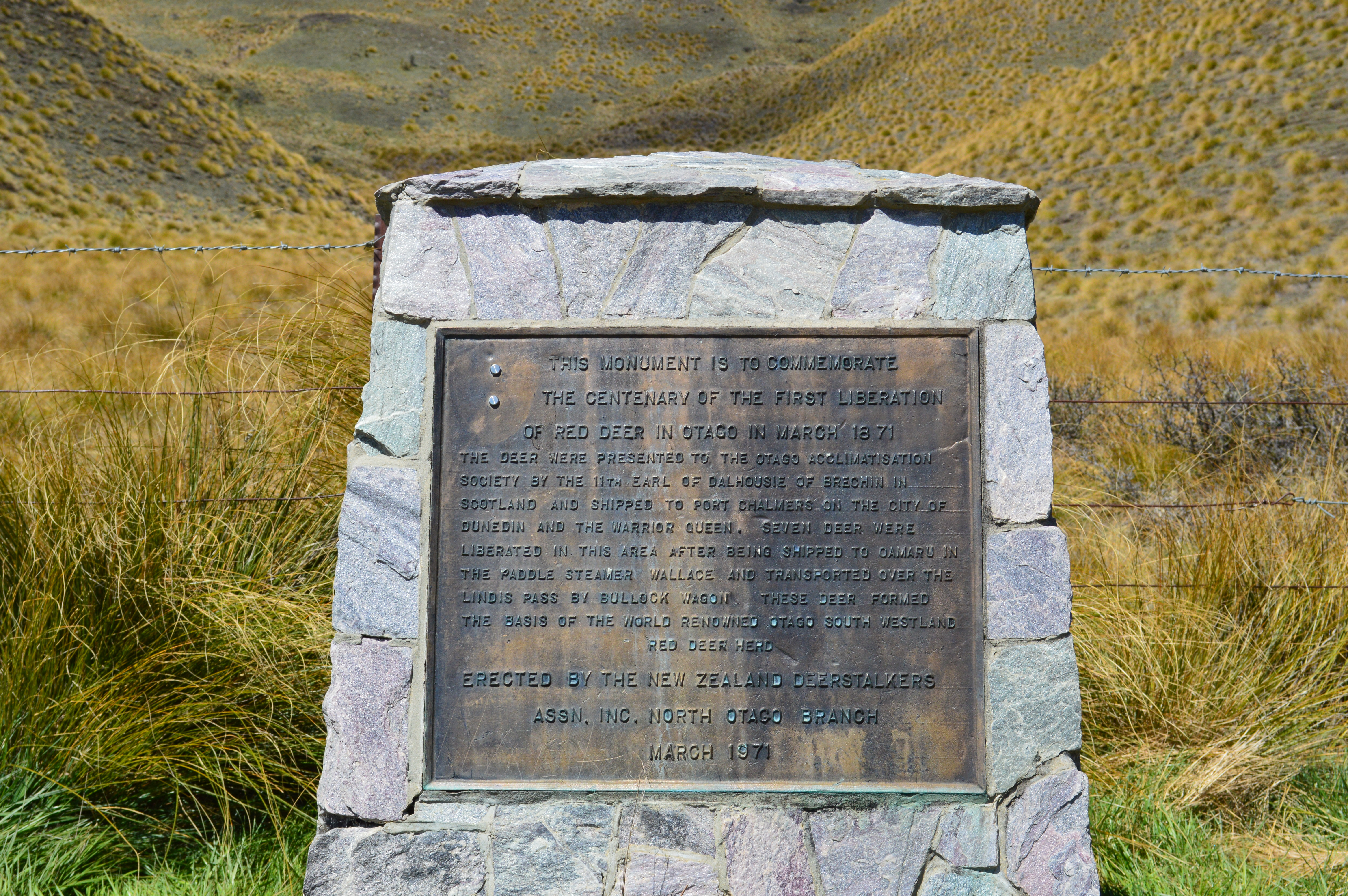 A monument marking the release of Red Deer, seen on the Lindis Pass in New Zealand